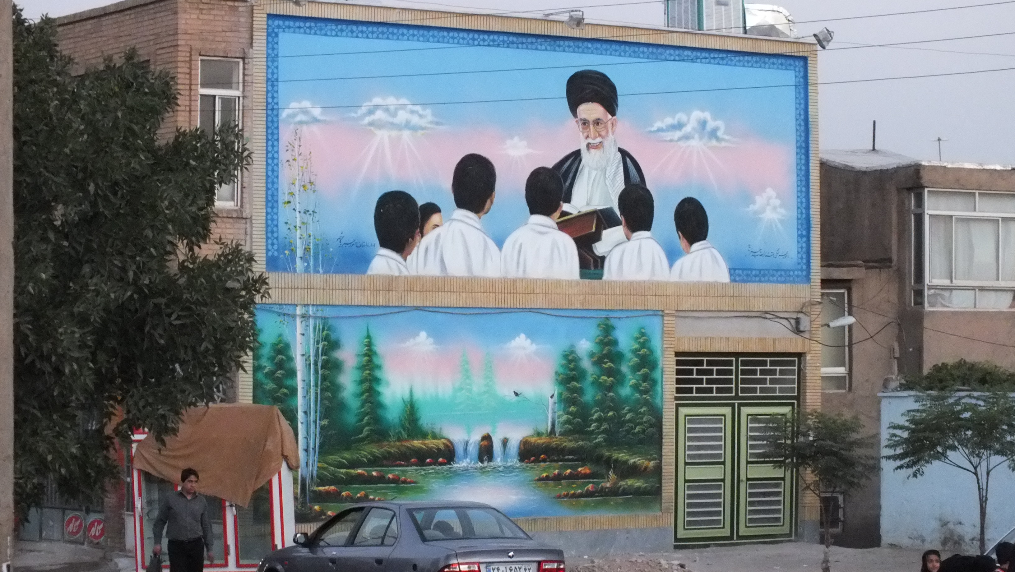 Khamenei wallpainting-Kashmar